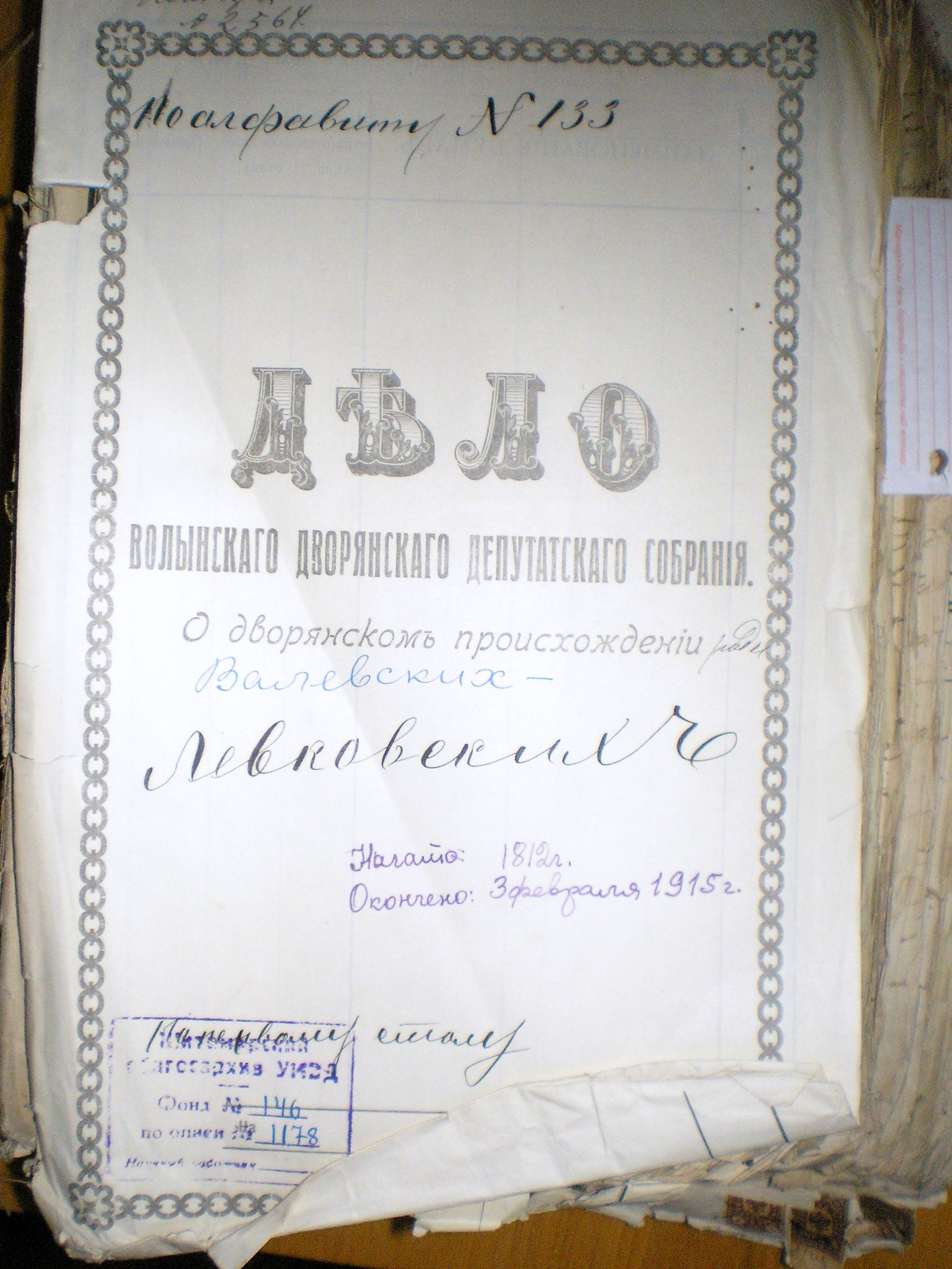 Proceedings of Volhynian Noble Assembly on the noble origin of the Levkovsky family. Compiled between 1812 and 1915.